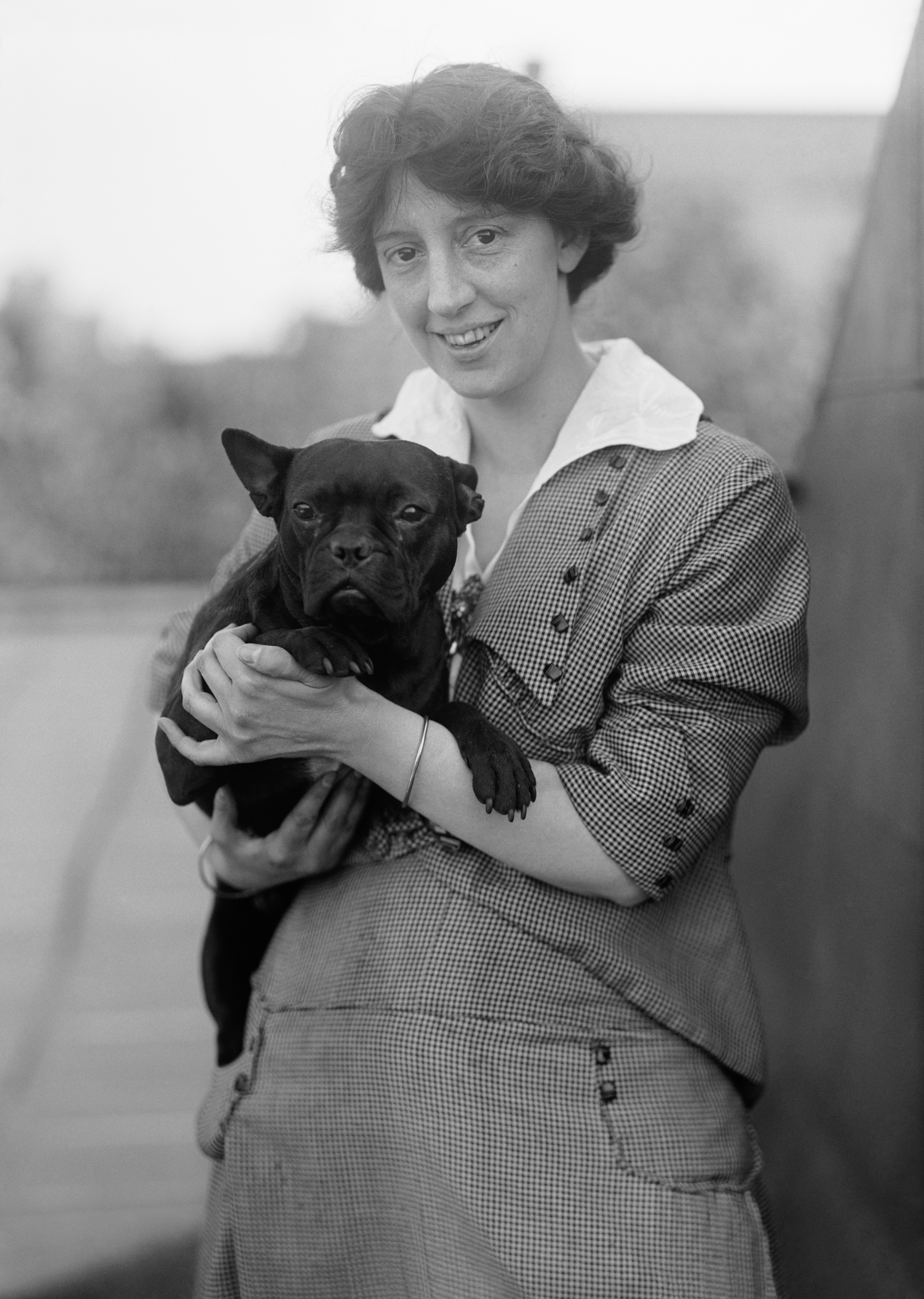 Glass negative (5x7in or smaller) of Hazel MacKaye, a member of the Advisory Council of the Congressional Union for Women Suffrage, and the writer and producer of the suffrage tableaux given on the Treasury Steps at Washington, D.C., on March 3rd, 1913.[1] Gift from Harris & Ewing, Inc. to the Library of Congress in 1955.